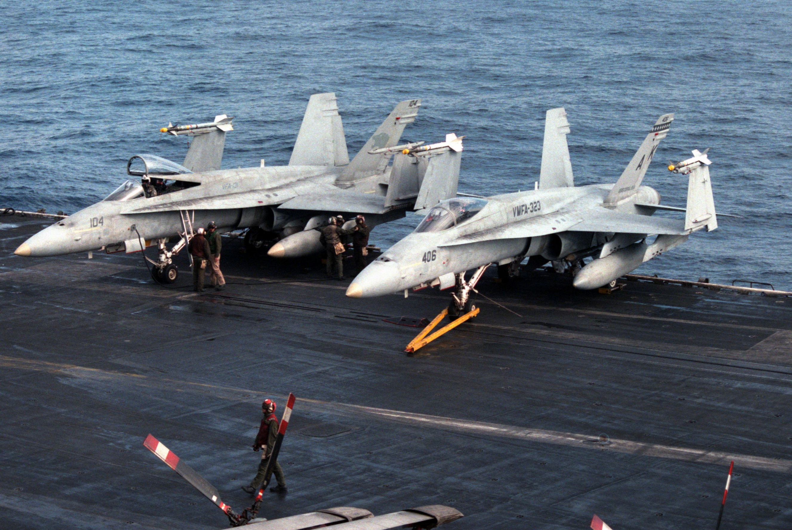 A U.S. Navy McDonnell Douglas F/A-18A Hornet aircraft from strike fighter squadron VFA-131 Wild Cats and an F/A-18A (BuNo 162431) from Marine strike fighter Squadron VMFA-323 Death Rattlers are parked on the edge of the flight deck during flight operations aboard the aircraft carrier USS Coral Sea (CV-43). The aircraft are armed with AIM-9L Sidewinder air-to-air missiles on the wing tips. Both aircraft were assigned to Carrier Air Wing 13 (CVW-13) for a deployment to the Mediterranean Sea from 1 October 1985 to 19 May 1986.